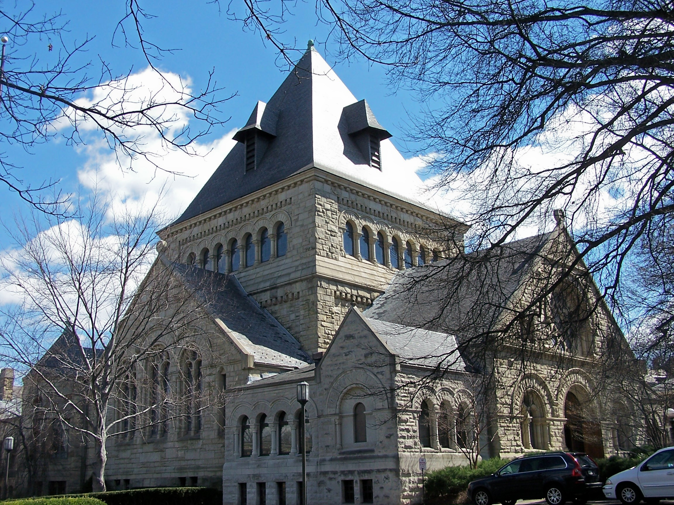 Shadyside Presbyterian Church in Pittsburgh - a refined example of Richardsonian Romanesque Revival architecture, designed by Richardson's successor firm: Shepley, Rutan & Coolidge. Completed 1890. Structure at front corner added by 1983. Church Architecture Site